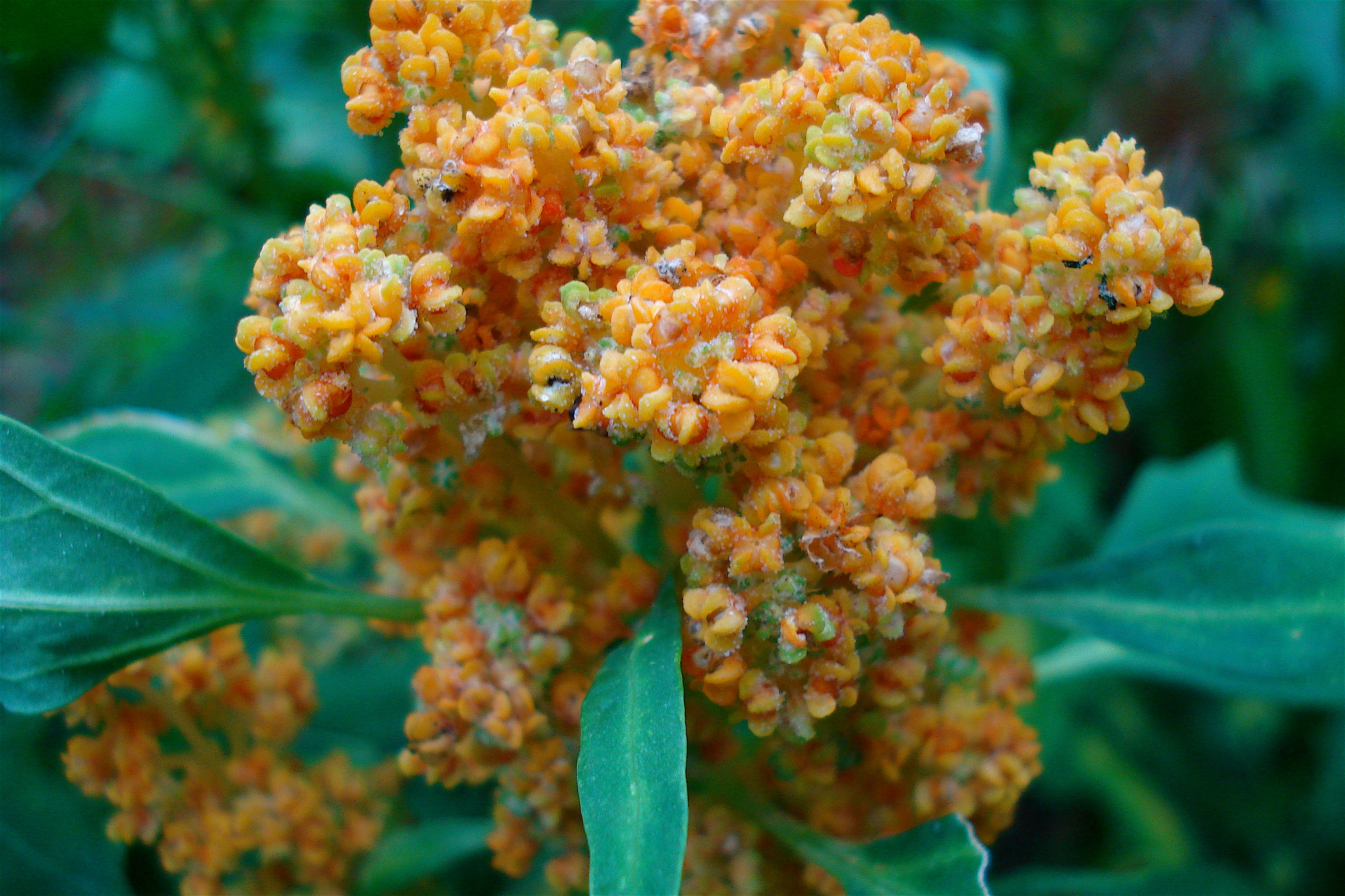 Chenopodium quinoa flowering